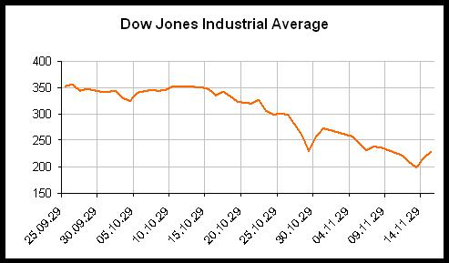 Dow Jones Industrial Average (Time Series, 1929), Black Friday.